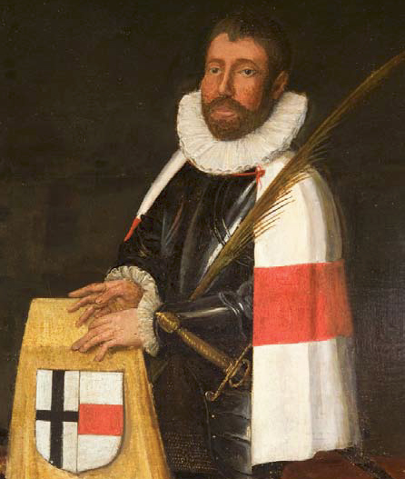 Jacob Taets van Amerongen, land commander of the Teutonic Order in the Bailiwick of Utrecht 1579-1612. Detail from The 7th panel in a series depicting all the commanders of the order, held in the Duitse huis, Utrecht.